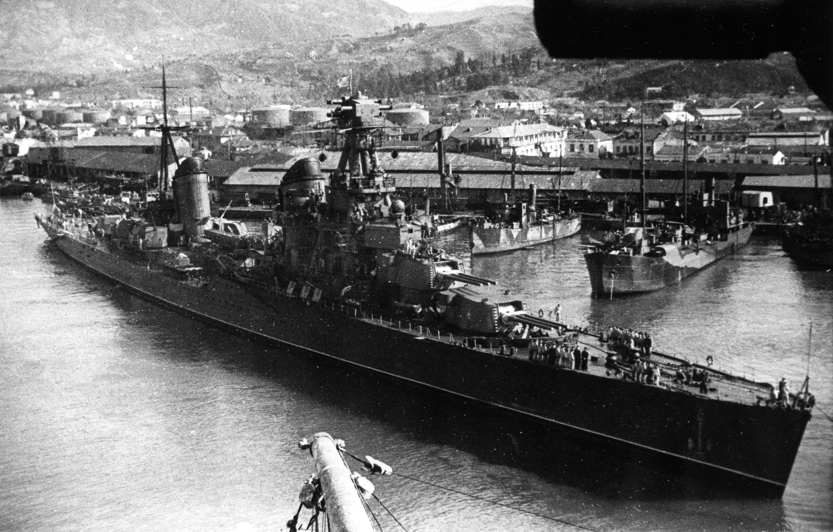 The Soviet cruiser Voroshilov in Batumi, 1942.